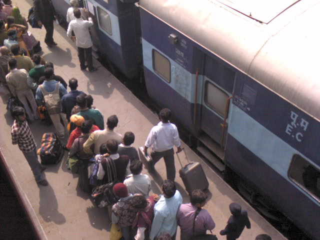 People thronged to board an express train at new delhi railway station